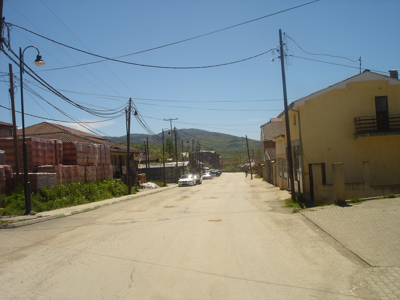 Main street in Centar Župa, Macedonia